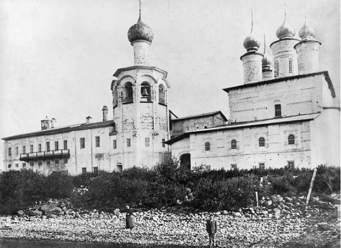 Spaso-Kamennyi Monastery near Vologda, Russia, 1909